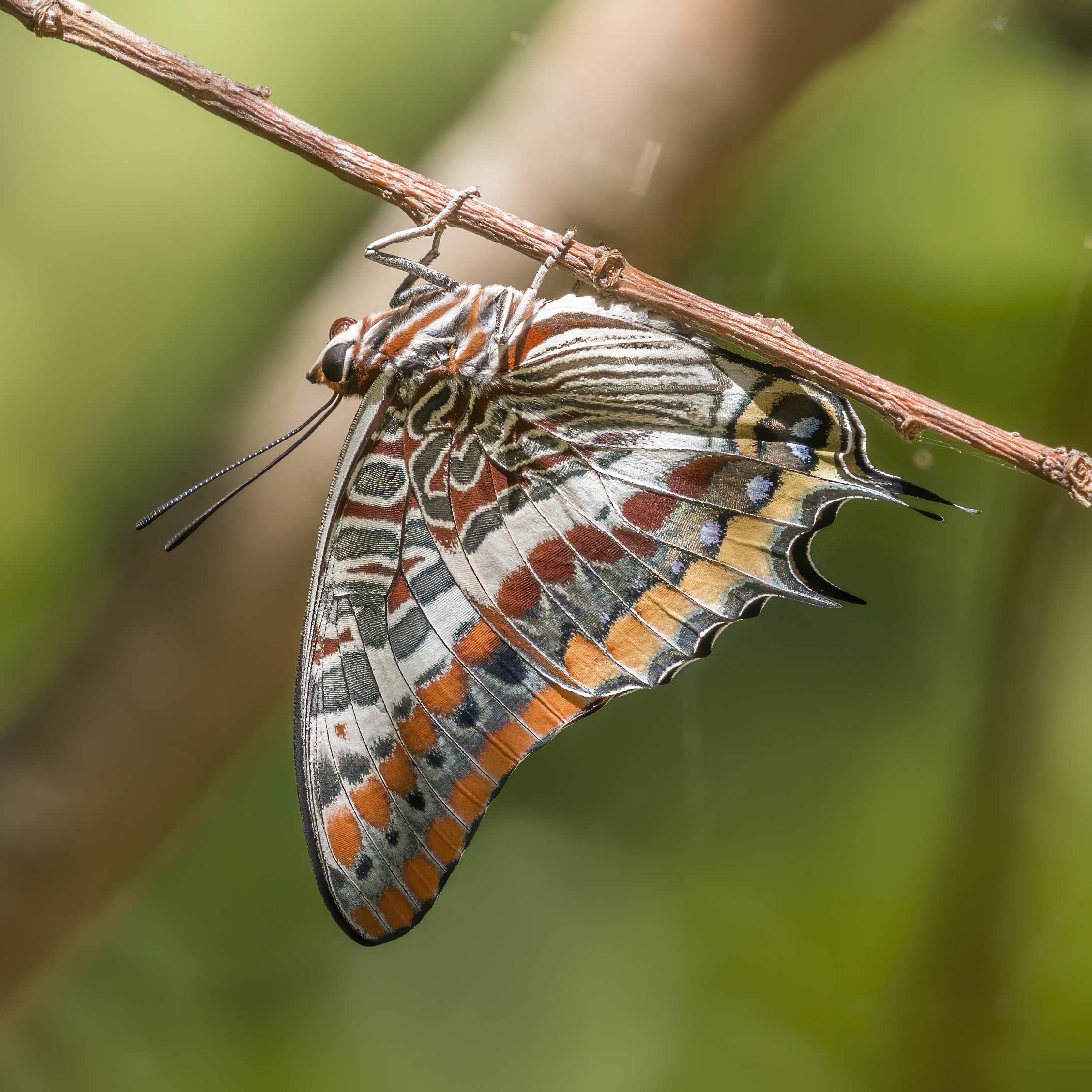 Two-tailed pasha (Charaxes jasius jasius), Sithonia, Greece